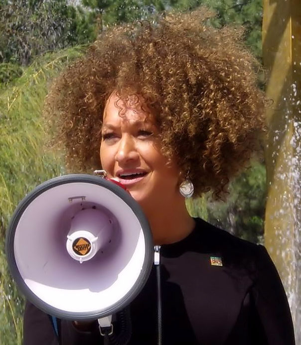 Rachel Dolezal speaking at Spokane rally, May 2015